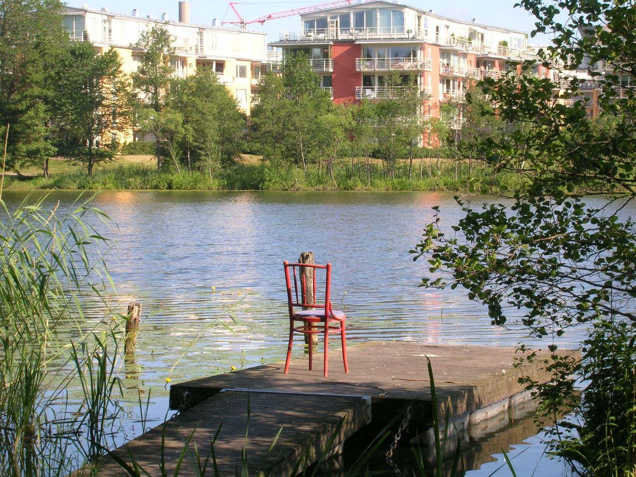 Sicklasjön seen from the south shore in Lilla Sickla in Stockholm facing north towards houses in Sickla strand in Nacka.